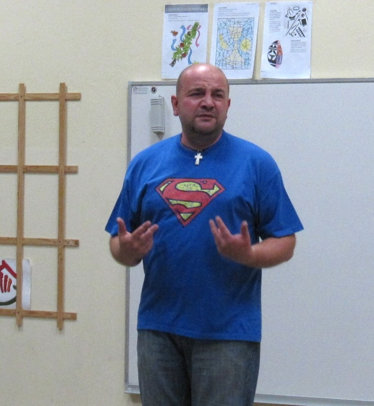 Actor Gregor Čušin @ Kodeljevo, LjubljanaSlovenščina: Igralec Gregor med predstavo Janez brez glave, Kodeljevo, Ljubljana